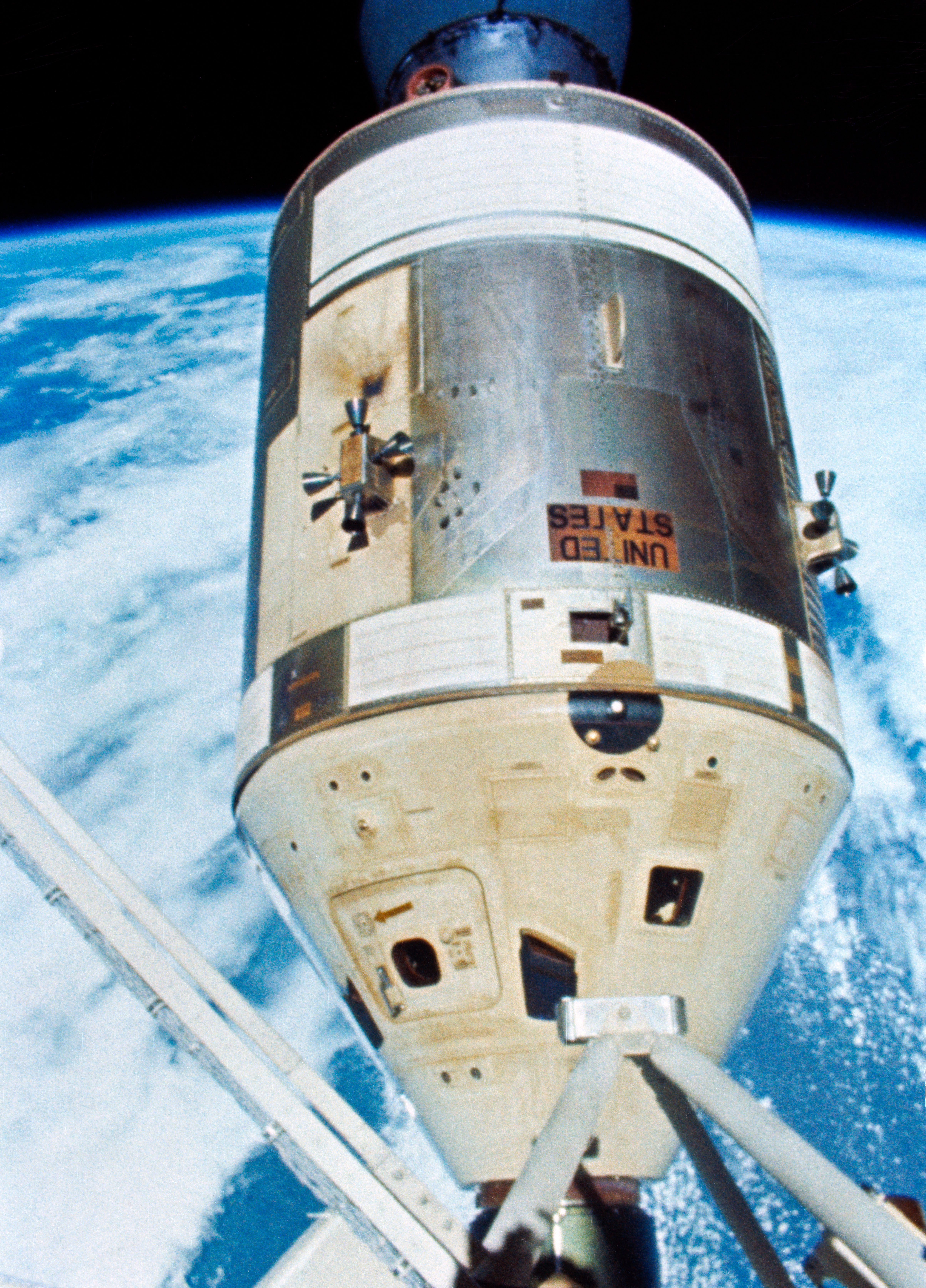 View of the Skylab 4 Command/Service module in a docked configuration, docked with the Skylab space station in Earth orbit. This picture was taken by Astronaut Gerald P. Carr, Skylab 4 commander, during the final Skylab extravehicular activity EVA which took place on February 3, 1974. Also available in B&W 4x5. Image ID: S74-17457